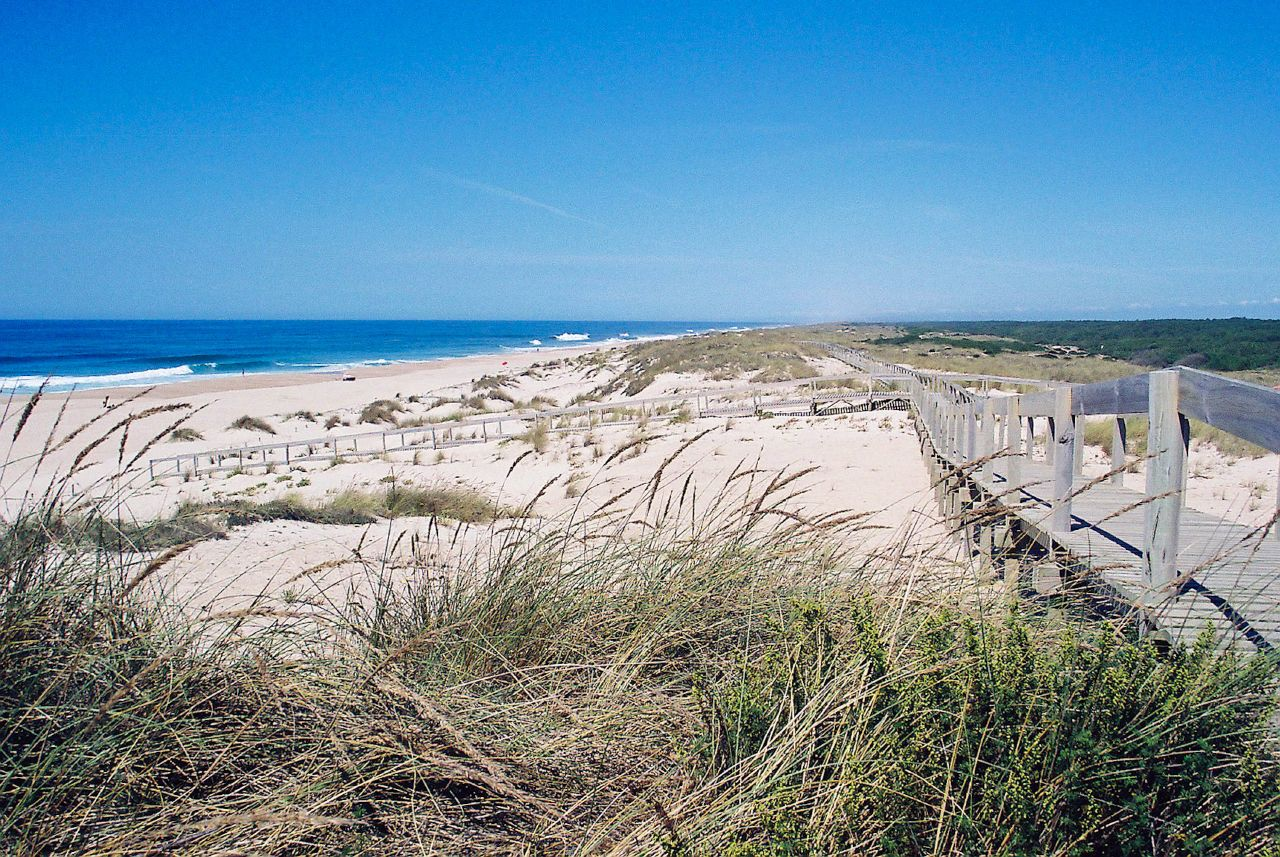 See where this picture was taken. [?]